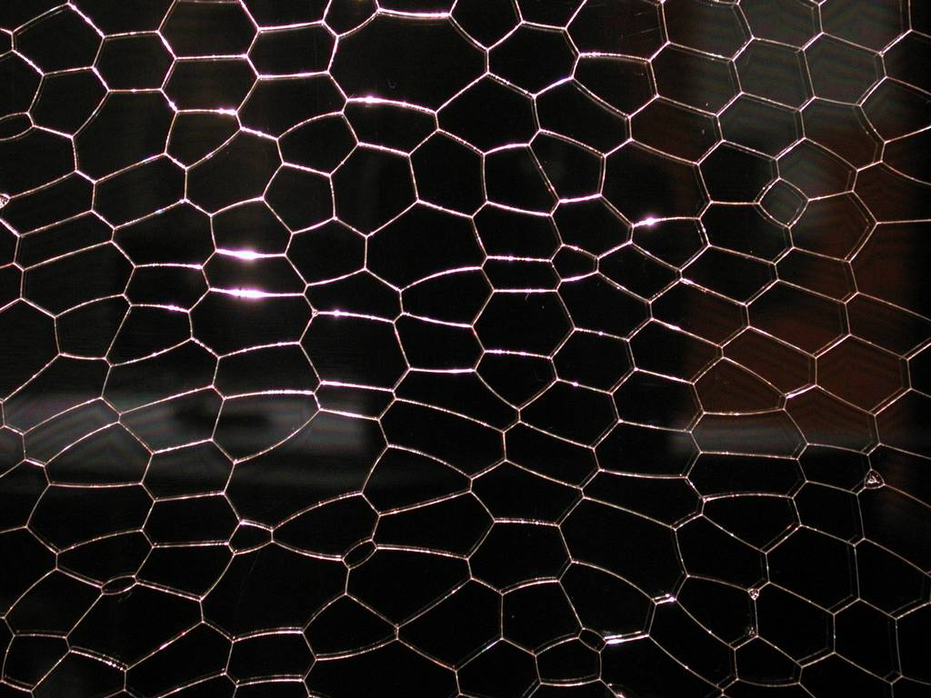 2-dimensional foam (bubbles lie in one layer)